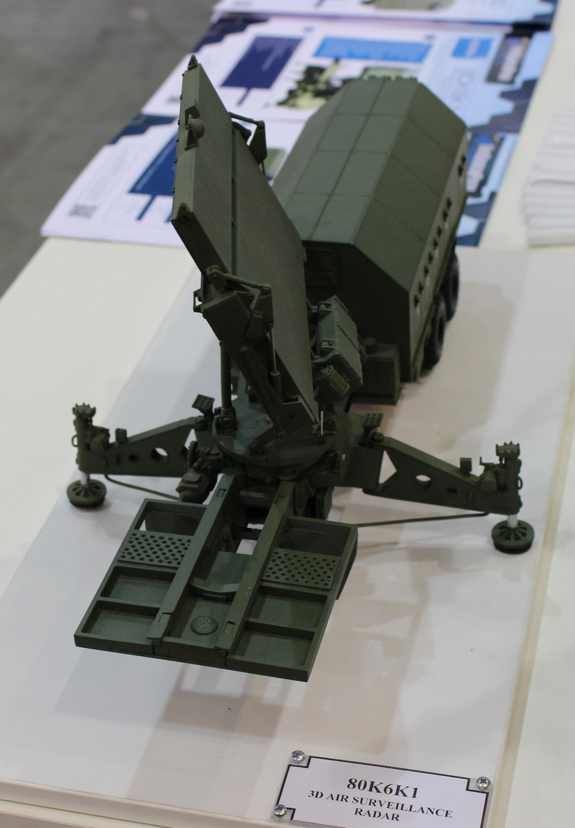 80K6K1 is an export modification of the 79K6 "Pelikan" radar.